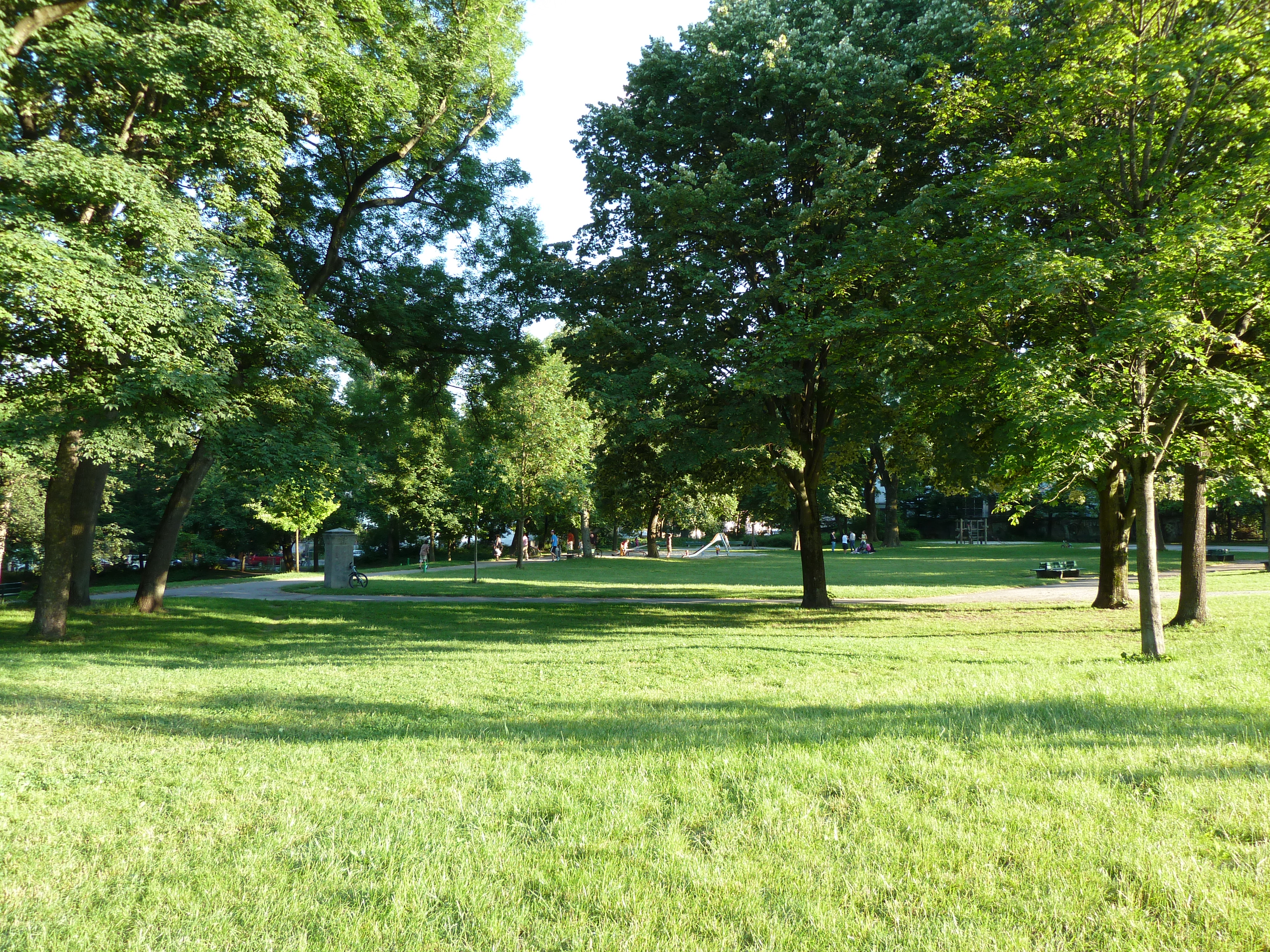 View in the Maßmannpark in Munich on 2010-07-07